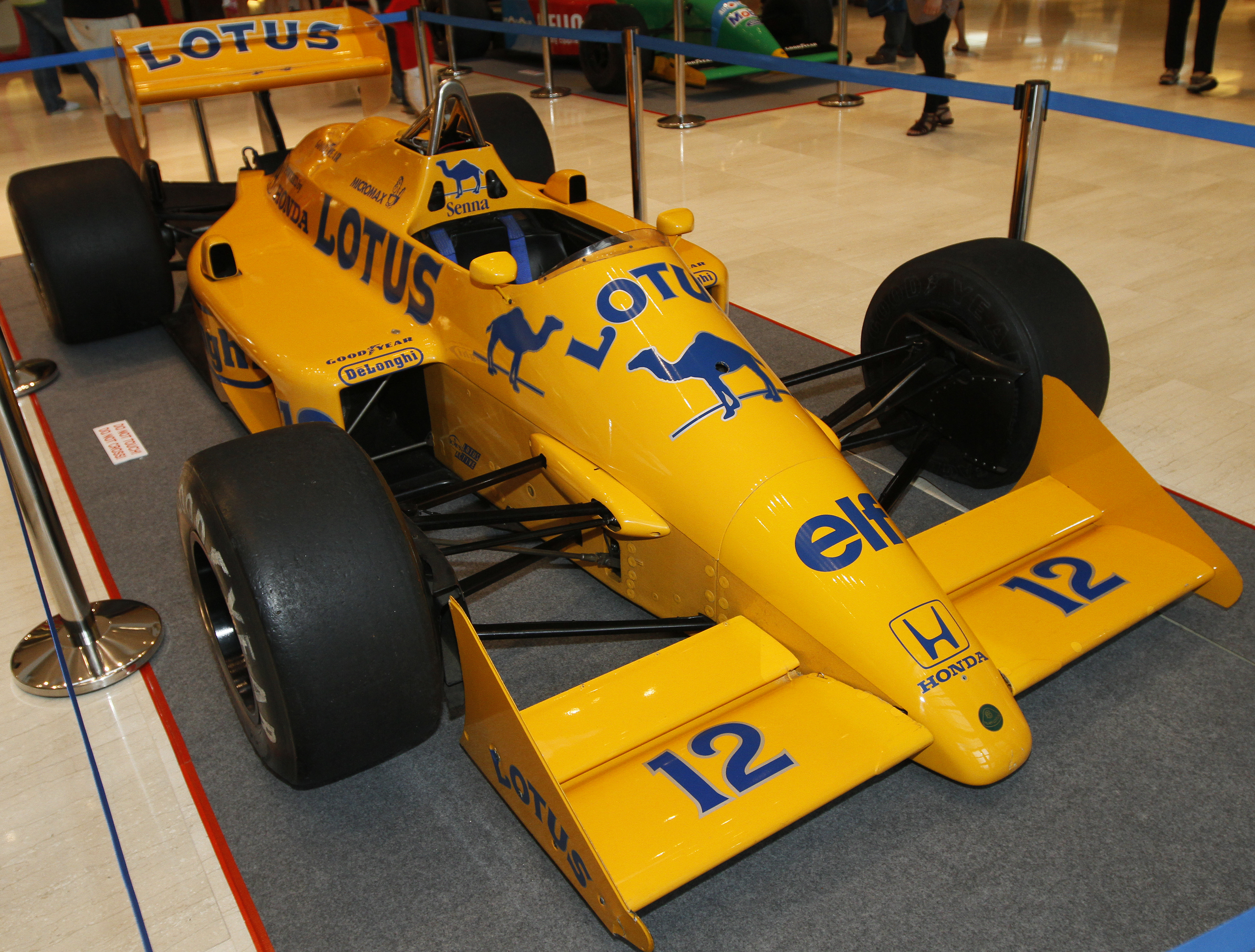 Pavilion Pit Stop 2010: Lotus 99T (Ayrton Senna's car)